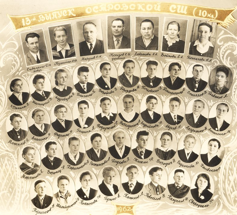 Выпускной в 1962 в деревне Ходосы